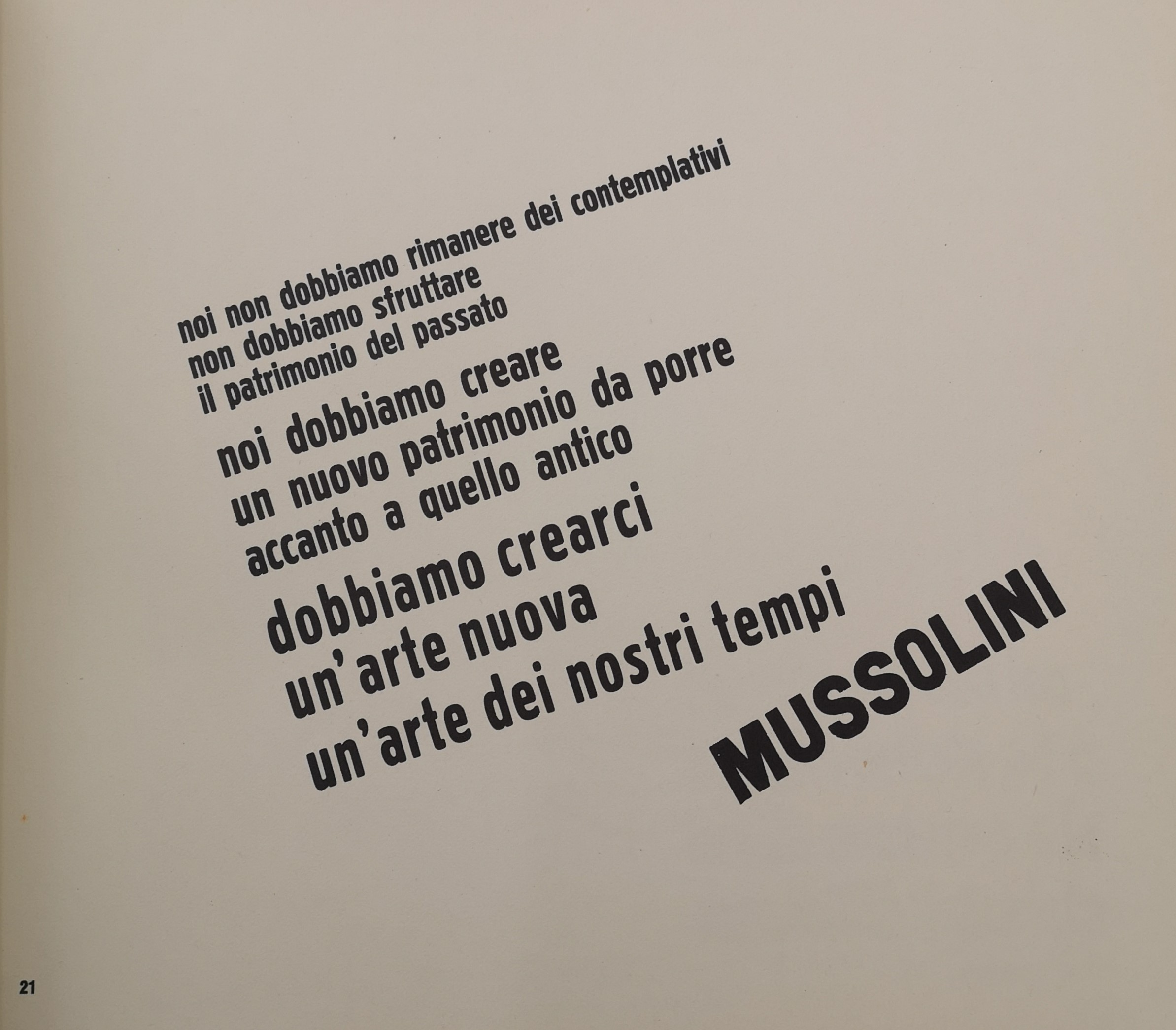 Mussolini's quote from Depero's Libro imbullonato as of 1927